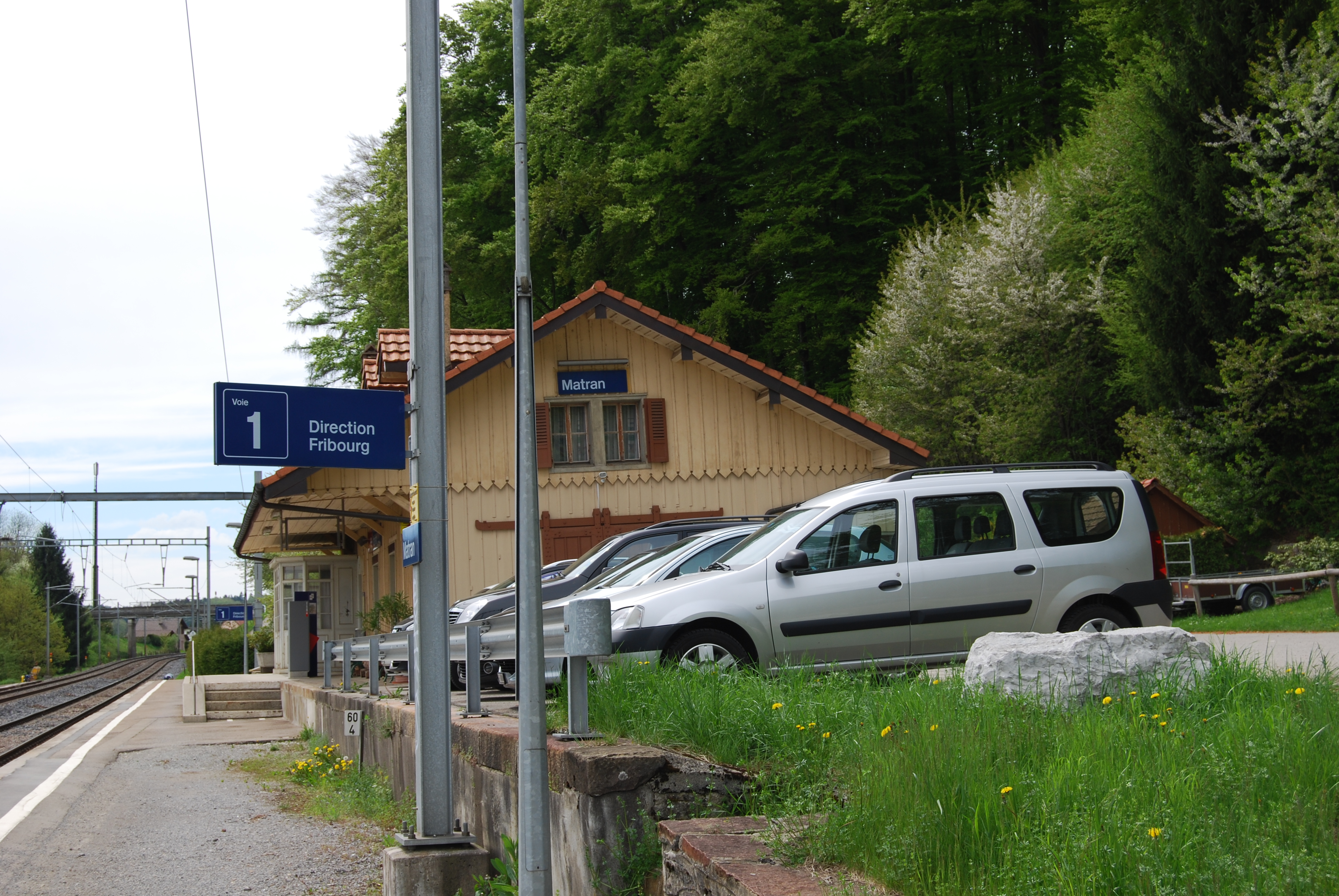 Trainstation of Matran, Matran, canton of Fribourg, Switzerland